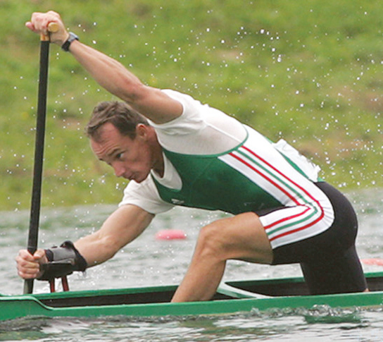 György Kolonics, the most successful sportsman in the history of Hungarian canoeing